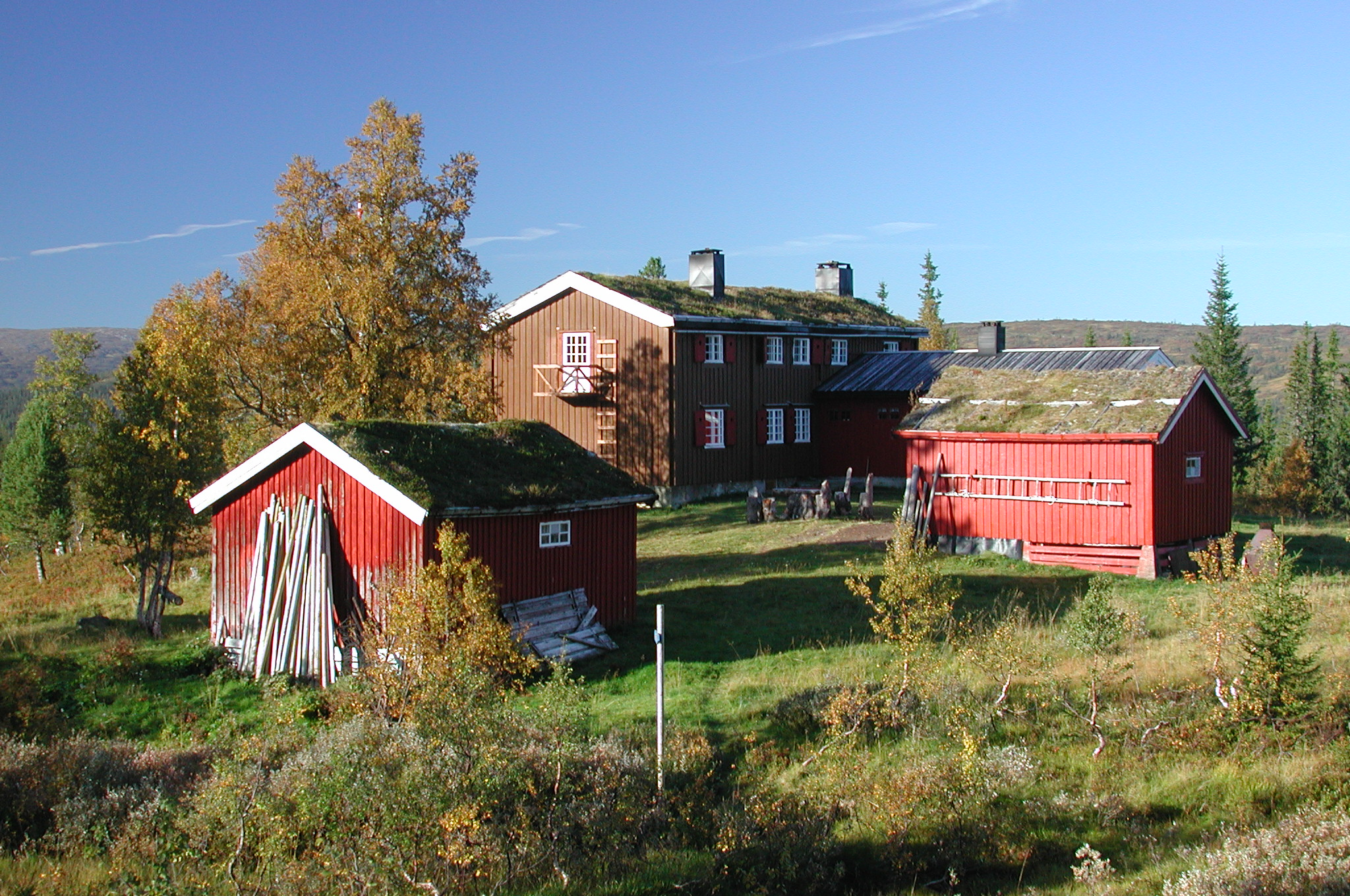 Schulzhytta in Sylan in Sør-Trøndelag in Norway.